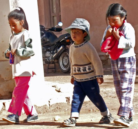 Niñas y niño en Purmamarca, Jujuy, Argentina (ampliación). Personality rights warningAlthough this work is freely licensed or in the public domain, the person(s) shown may have rights that legally restrict certain re-uses unless those depicted consent to such uses. In these cases, a model release or other evidence of consent could protect you from infringement claims.